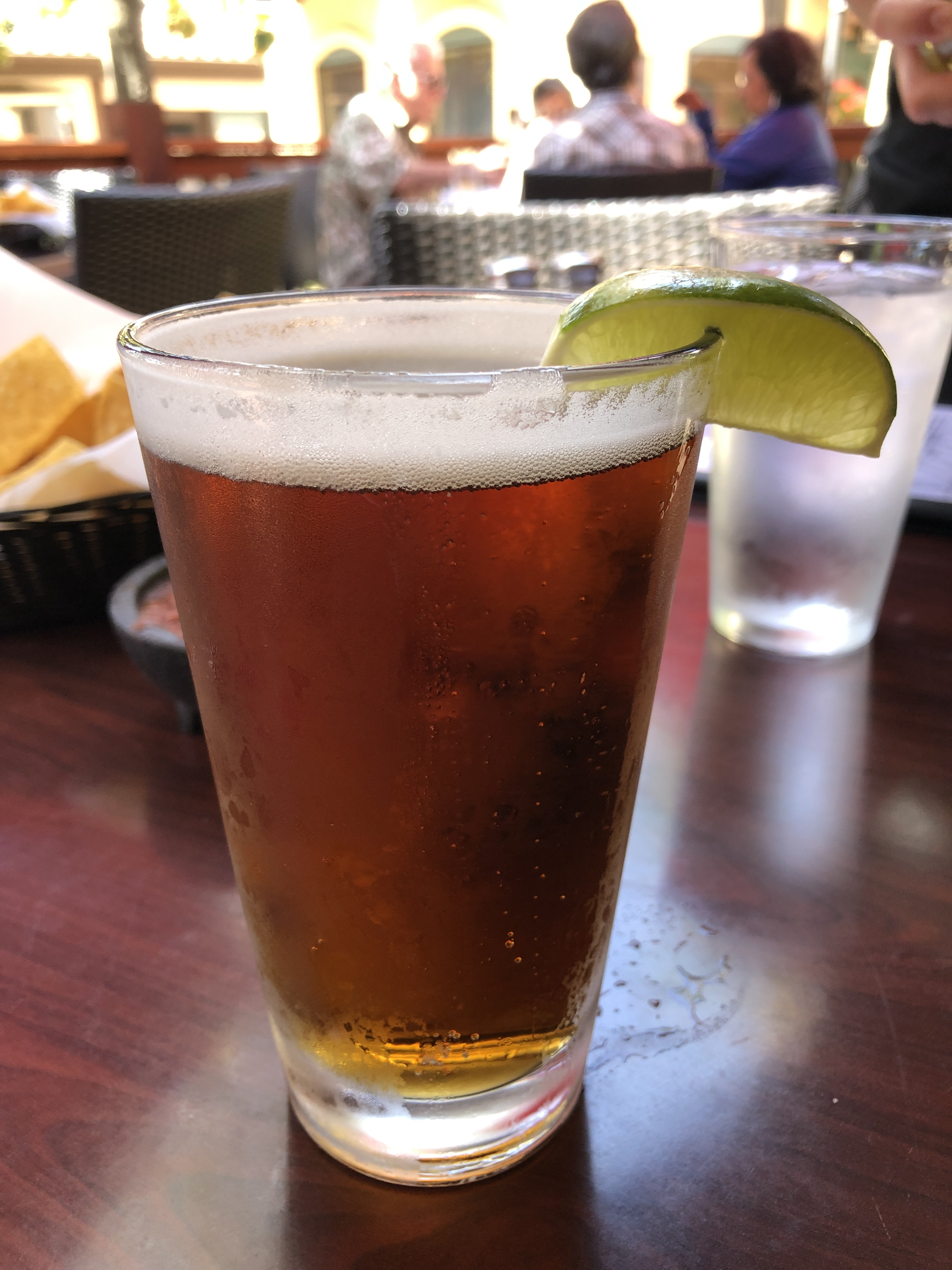 A pint of Dos Equis beer at La Casa Restaurant in Sonoma, California